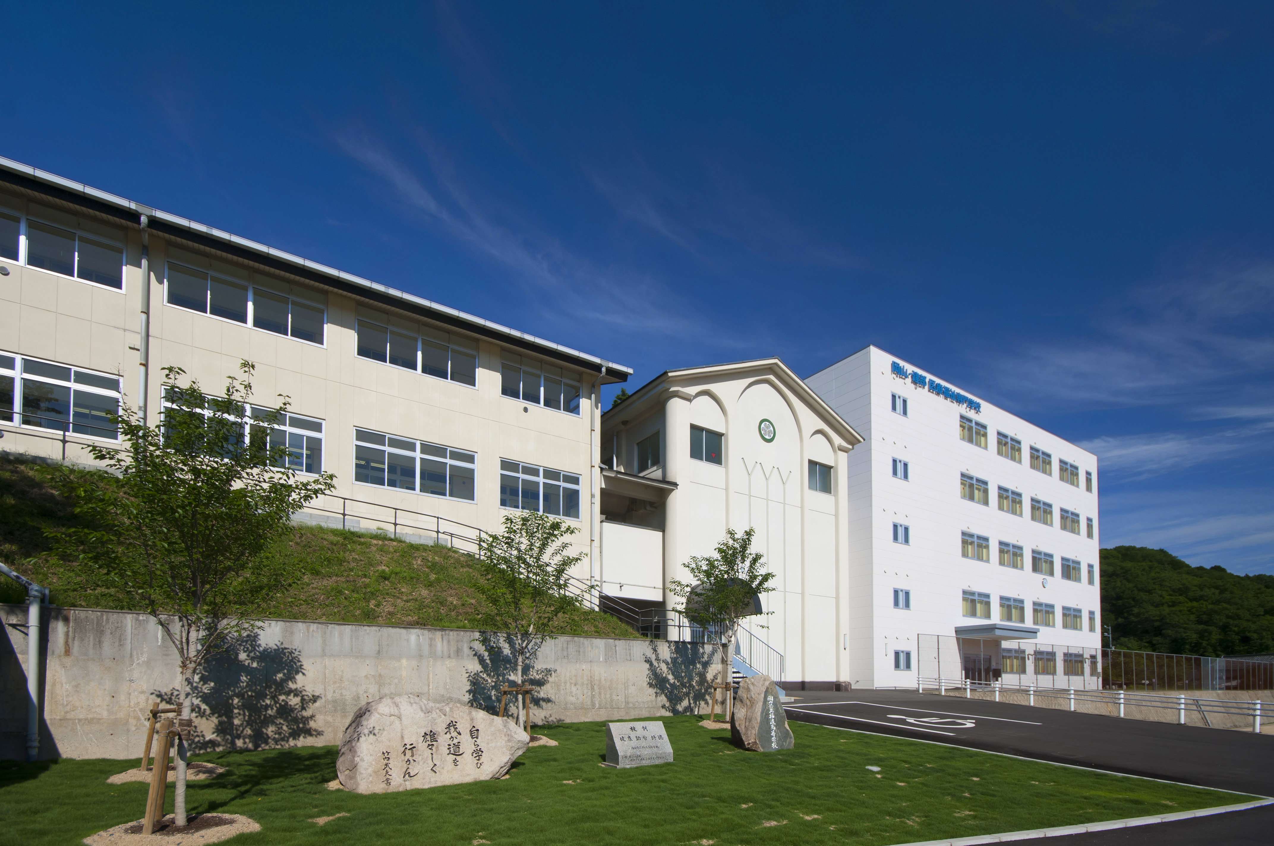 Okayama Takebe Medical Welfare College in Takebe, Kita-ku, Okayama